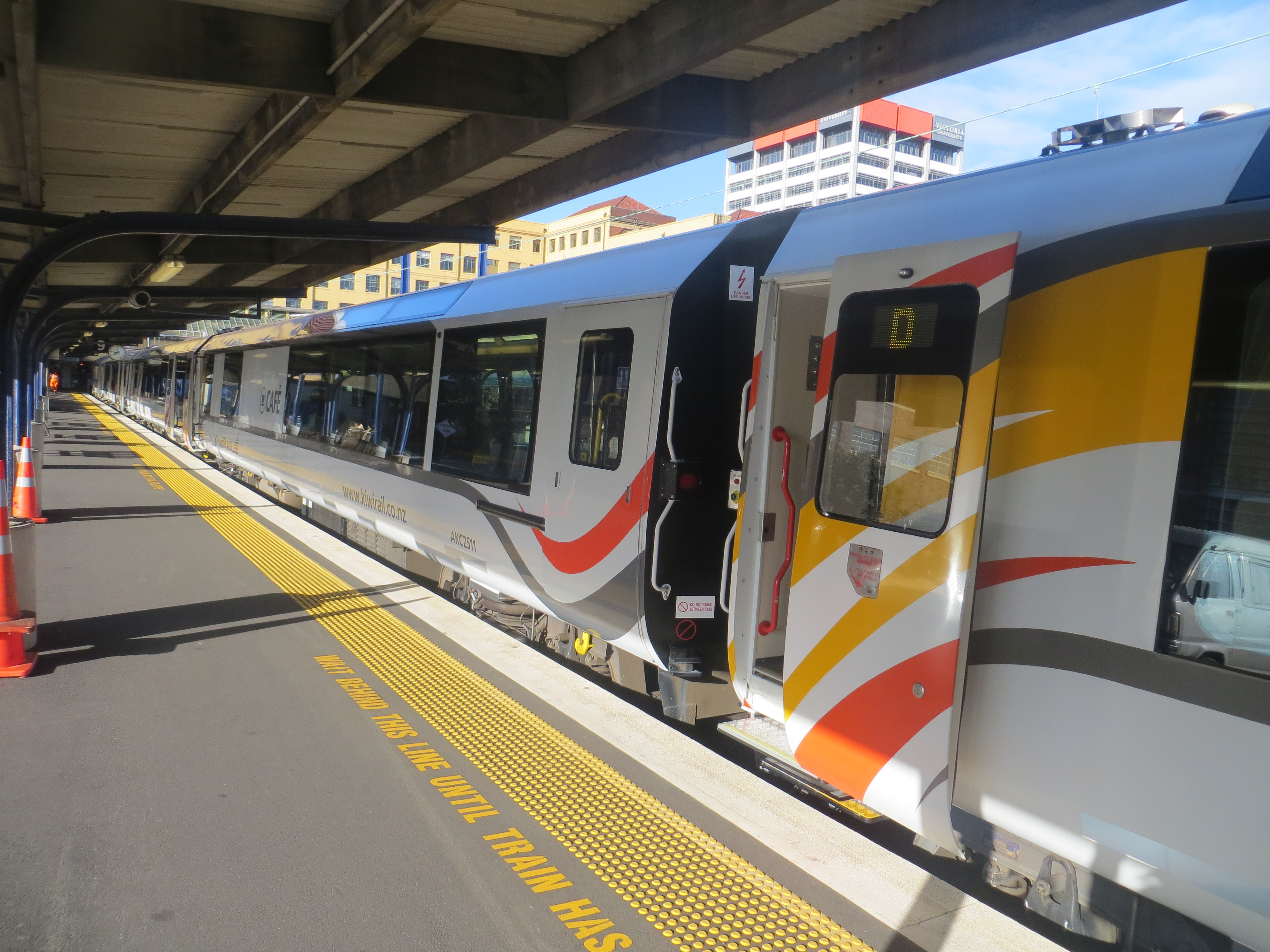 in the 2012 schedule the train leaves at 7.55am from the 1937 Wellington Railway Station